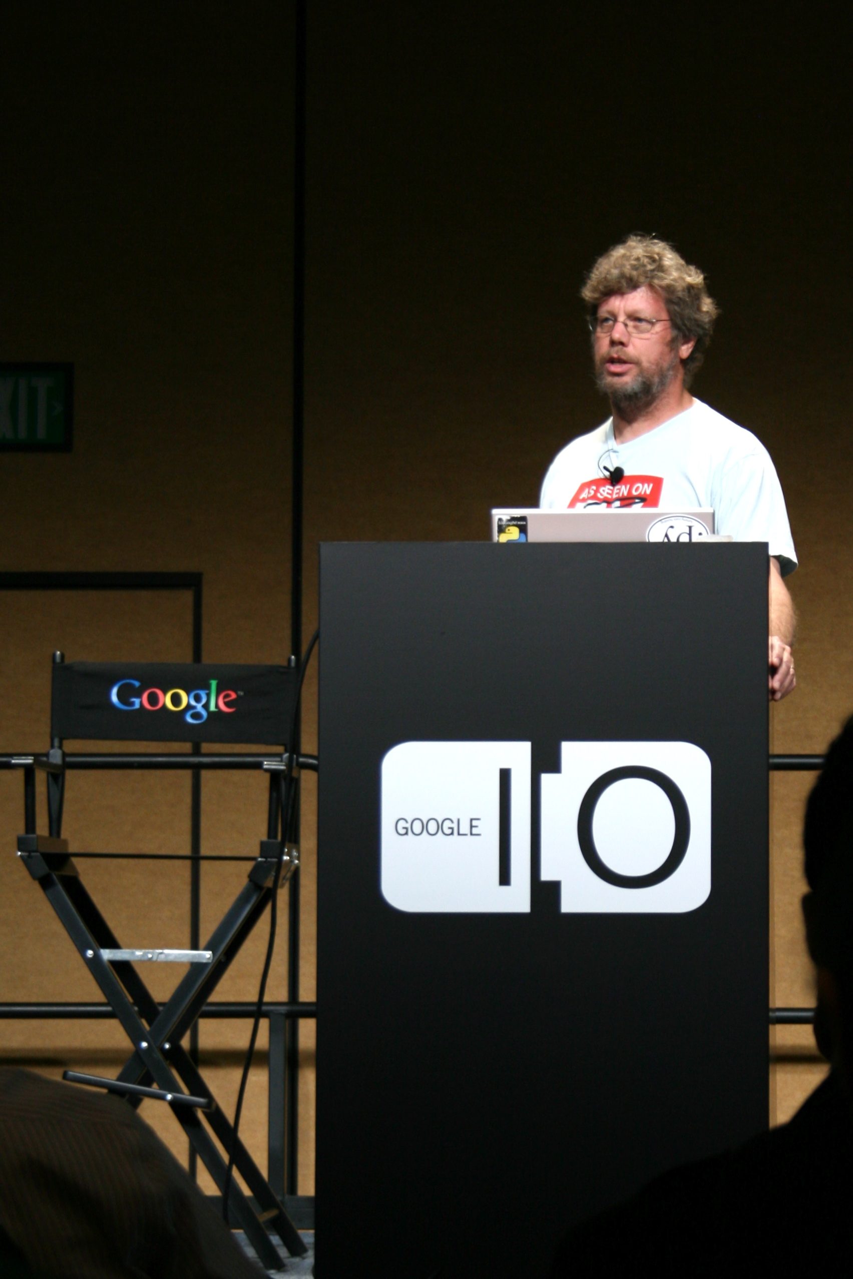 Python's chief designer Guido van Rossum at the Google I/O Developer's Conference in San Francisco, California.